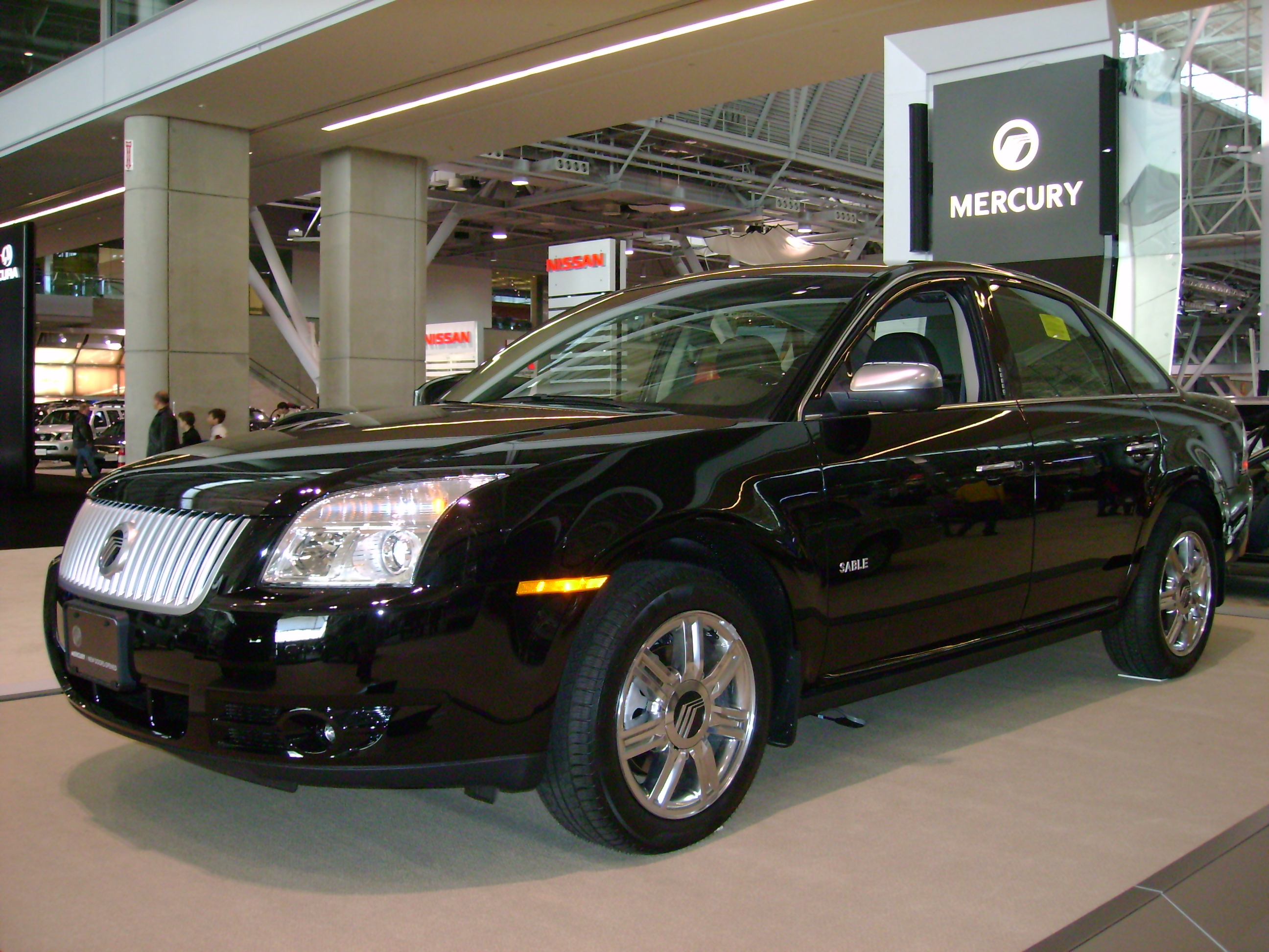 2008 Mercury Sable photographed in USA.